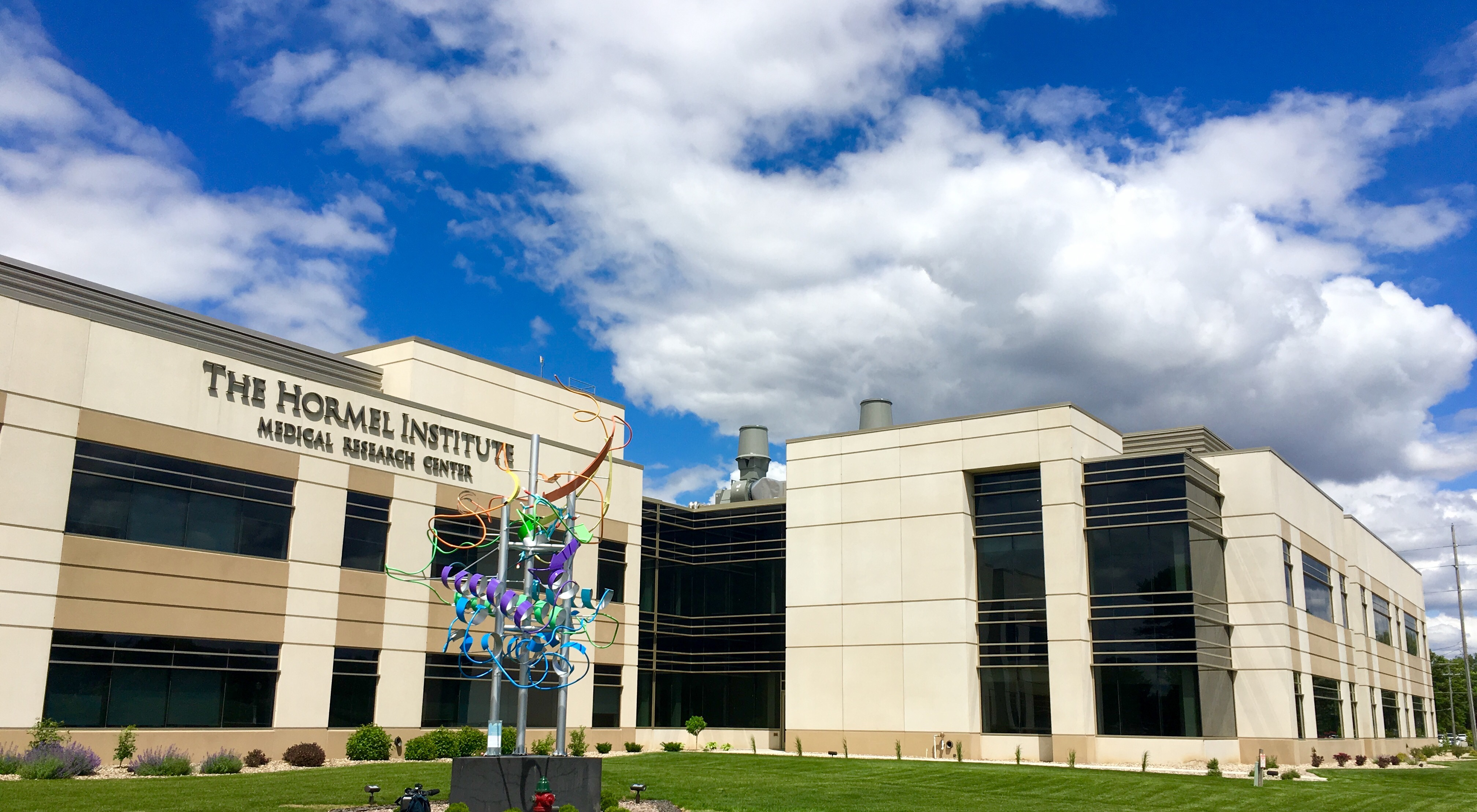 Exterior of The Hormel Institute (University of Minnesota) in Austin, Minnesota